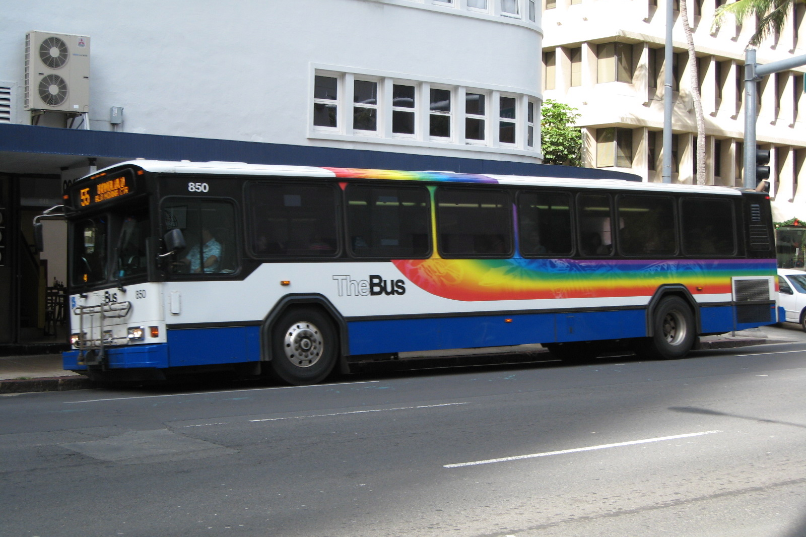 Photograph of a TheBus 40' Gillig Phantom bus in Honolulu near the intersection of Beretania and Bishop.